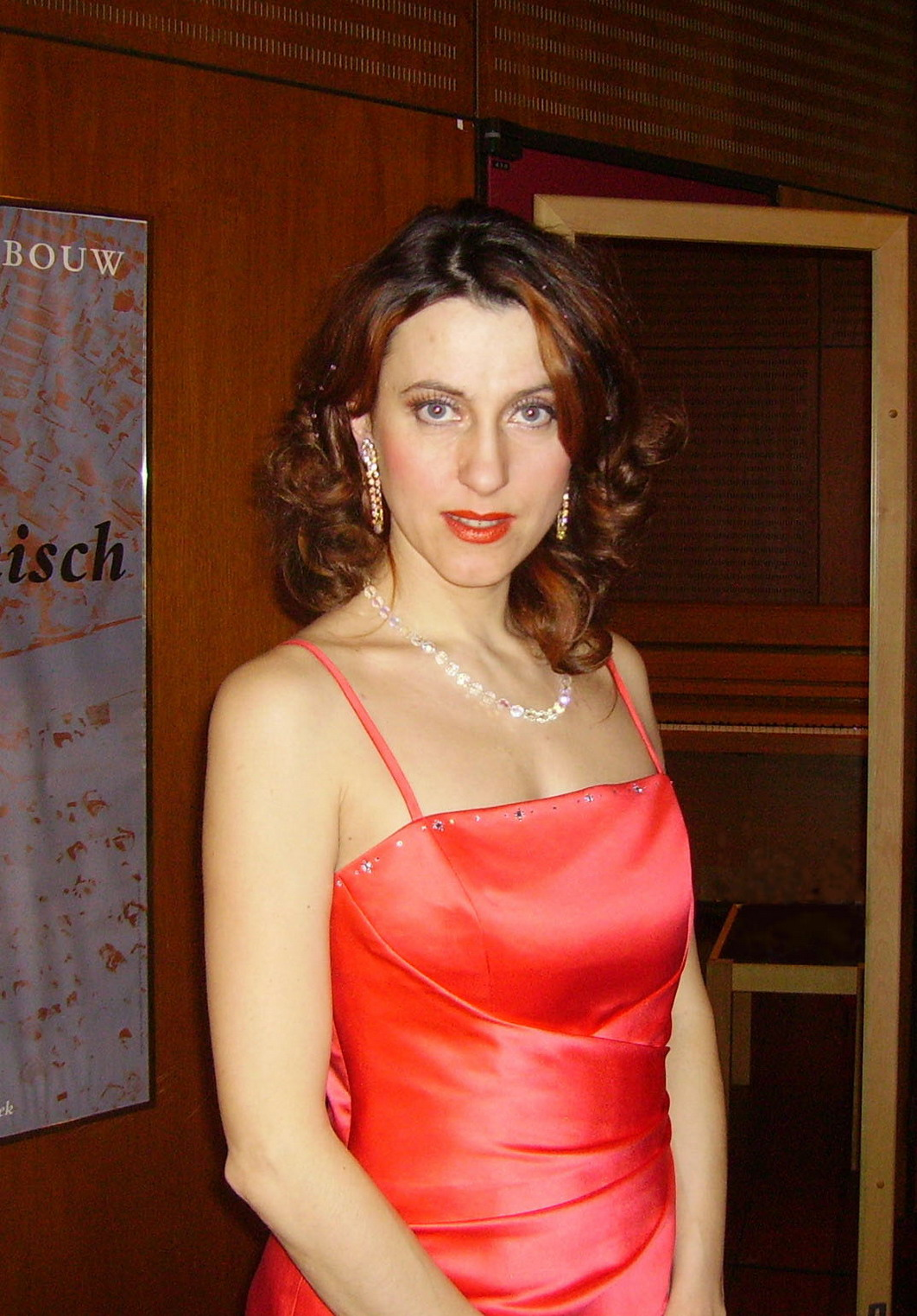 Marianna Laba